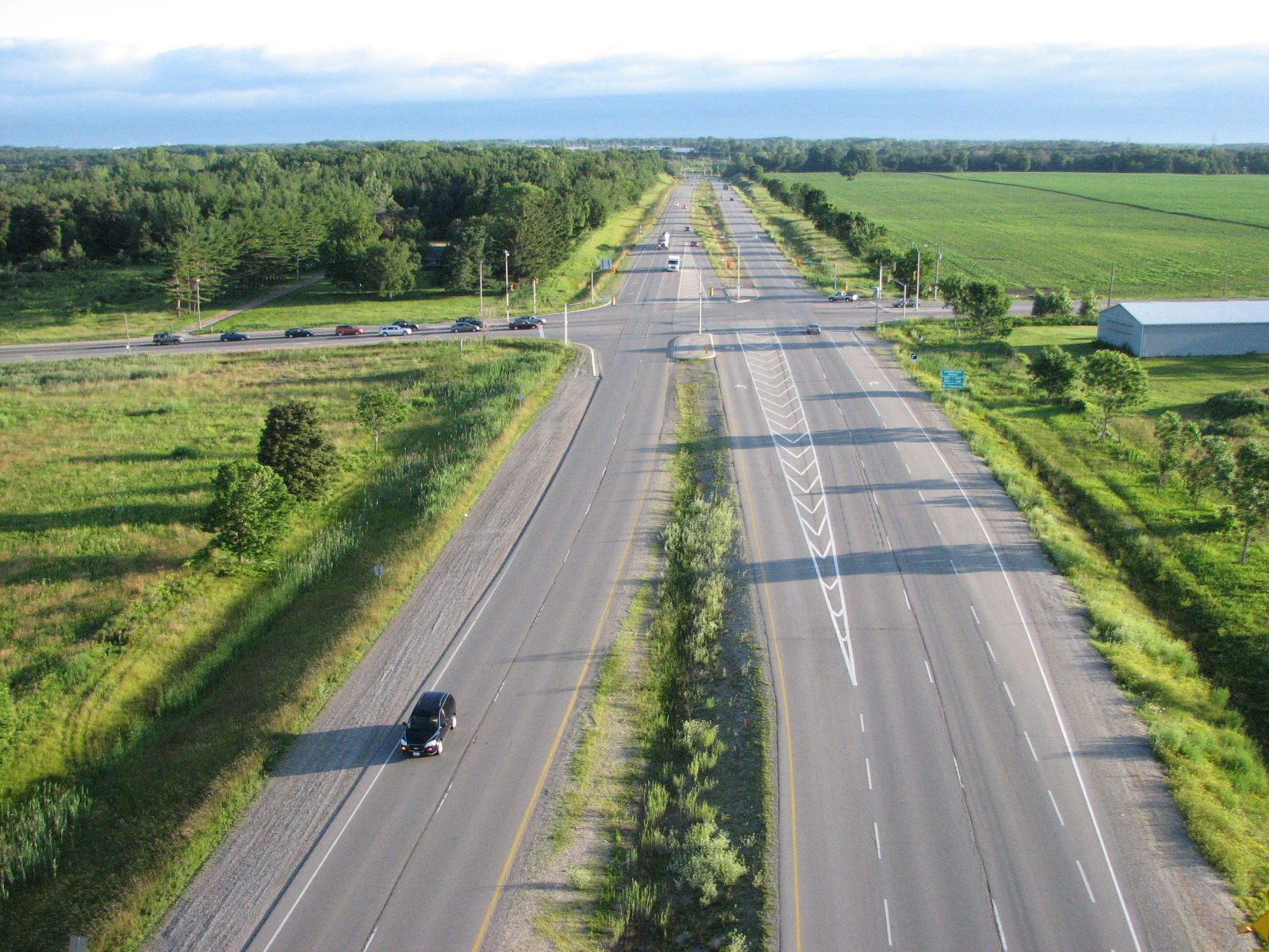 Intersection along the Veterans Memorial Parkway, an at-grade expressway in London, Ontario, featuring 'slot left-turn lanes'